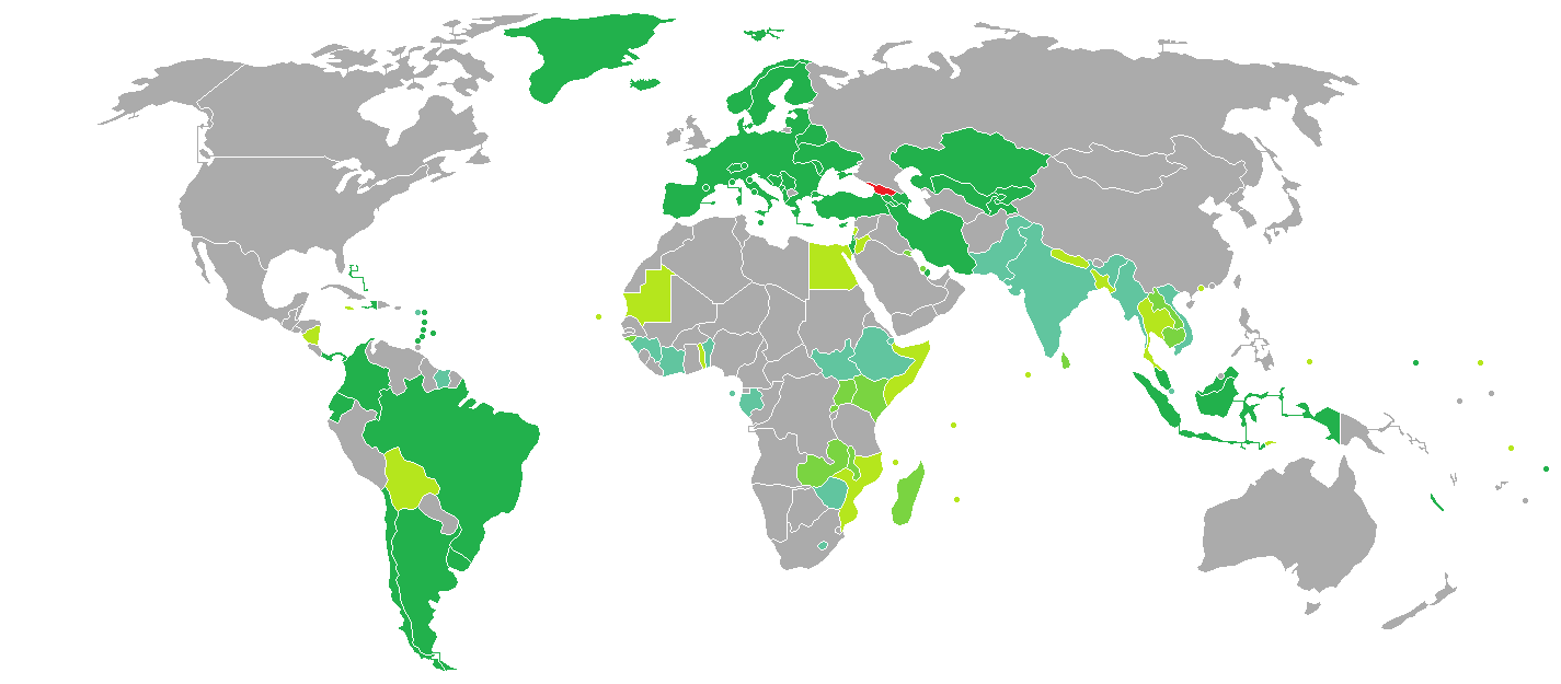 Visa requirements for Georgian citizens Georgia Visa free access Visa on arrival eVisa Visa available both on arrival or online Visa required